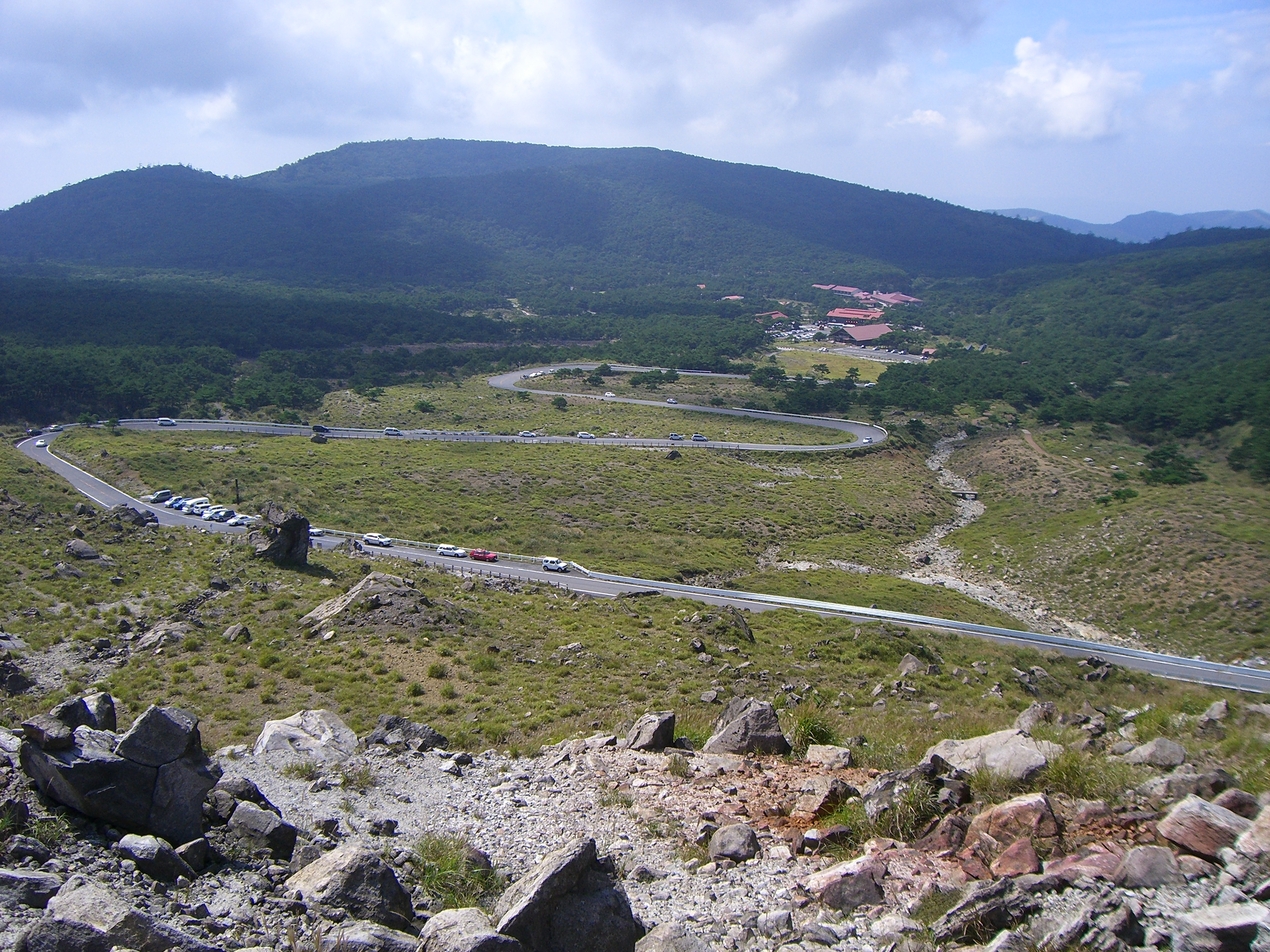 Ebino Plateau in Miyazaki, Japan.